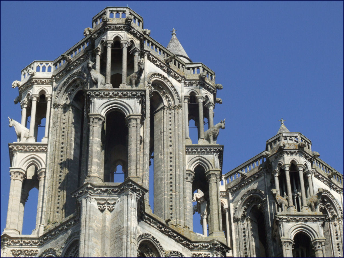 Cathédrale Notre-Dame de Laon (Cathedral Notre Dame of Laon), Laon, France